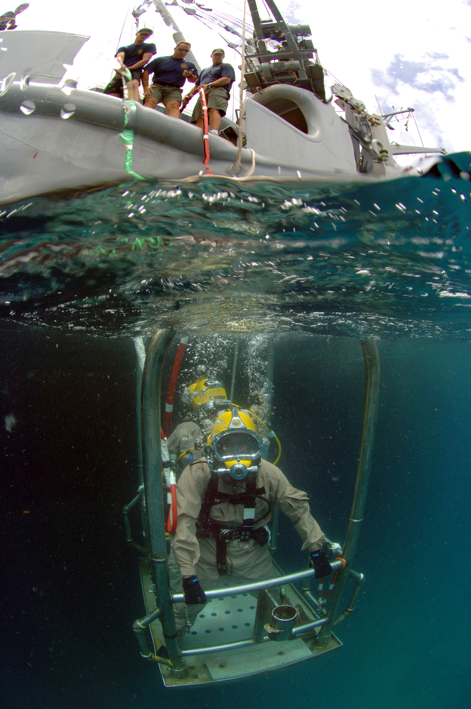 080726-N-3093M-003 BASSETERRE, St. Kitts (July 26, 2008) Chief Warrant Officer Guy Inzunza, assigned to Mobile Diving and Salvage Unit (MDSU) 2, rides a stage to the sea bed during a dive from the Military Sealift Command rescue and salvage ship USNS Grasp (ARS 51) supporting Navy Dive Global Fleet Station 2008 off the coast of St. Kitts.